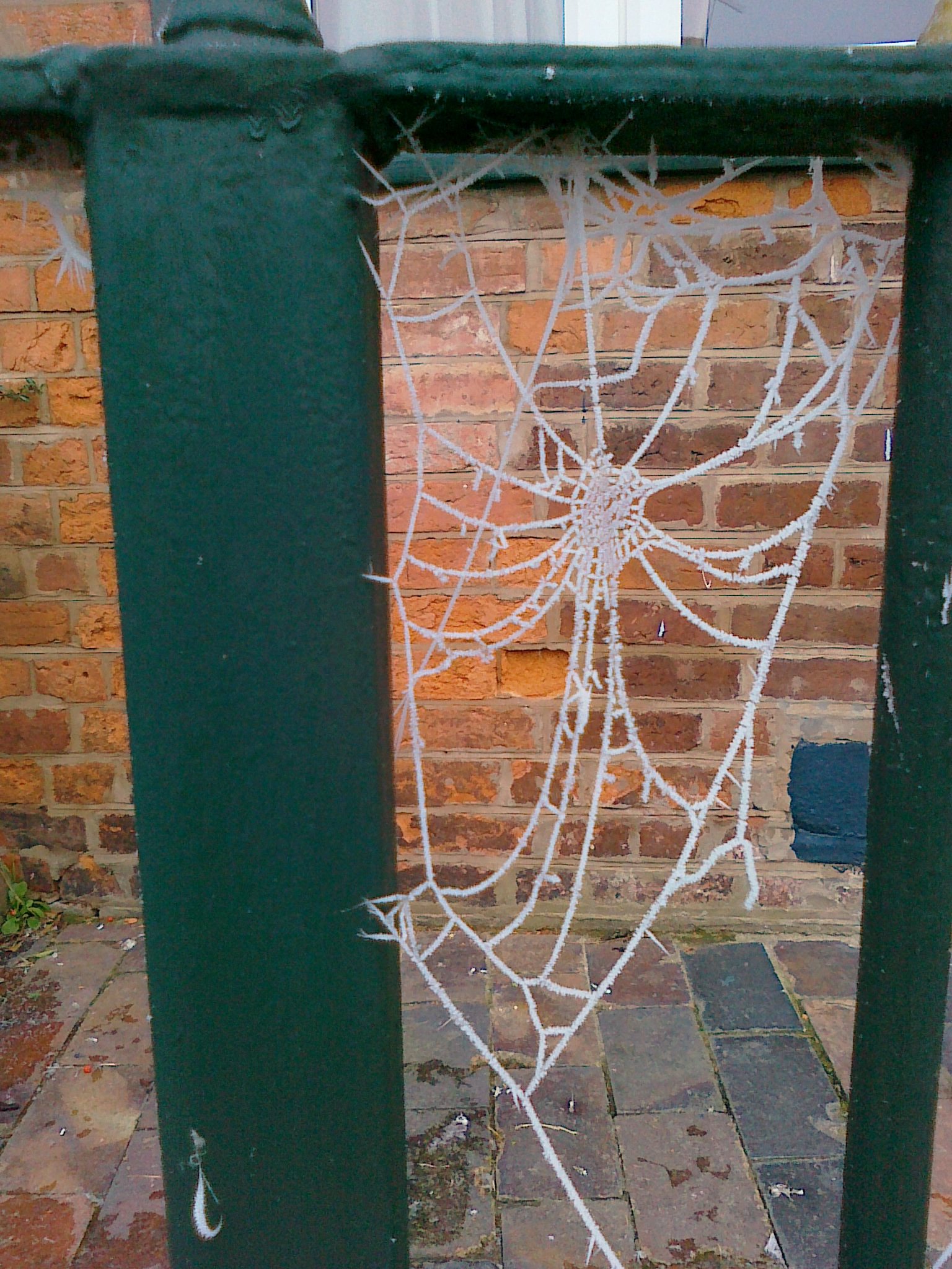 Hoar frost collected on a cobweb